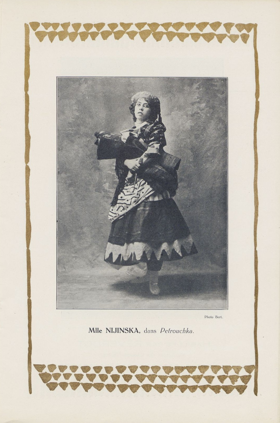 Bronislava Nijinska in Petrouchka. From a playbill, Théâtre des Champs-Elysées. Saison Russe. 23 Mai 1913. Ballets Russes Programs, 1907-1929 (MS Thr 965 [7). Harvard Theatre Collection, Houghton Library, Harvard University